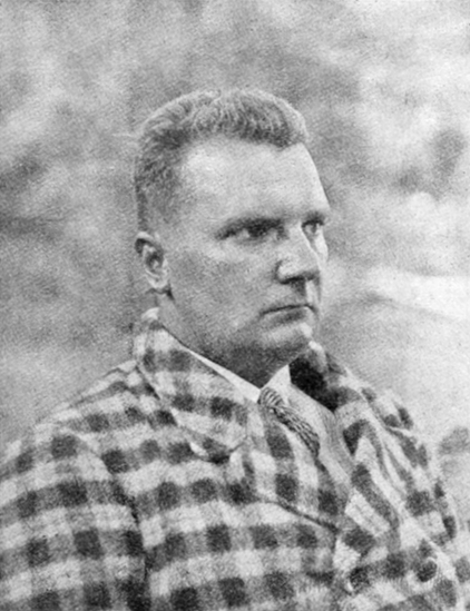 Bruno Brehm (1892-1974) was a German writer.